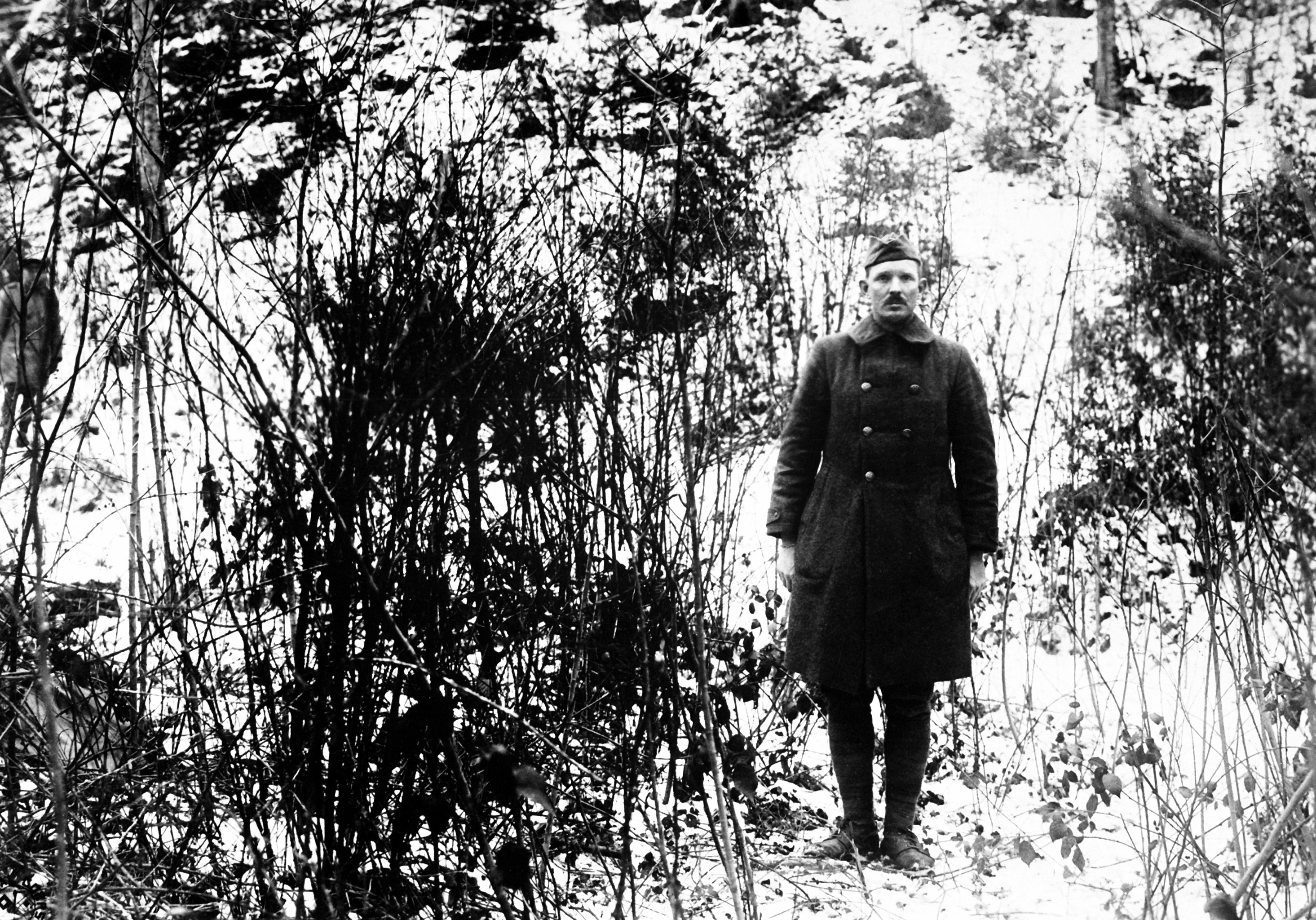 Sgt. Alvin C. York, 328th Infantry, who with the aid of 7 men, captured 132 German prisoners, shows the hill on which the raid took place on October 8, 1918 in the Argonne Forest, near Cornay, France after World War I. ID # HD-SN-99-02157